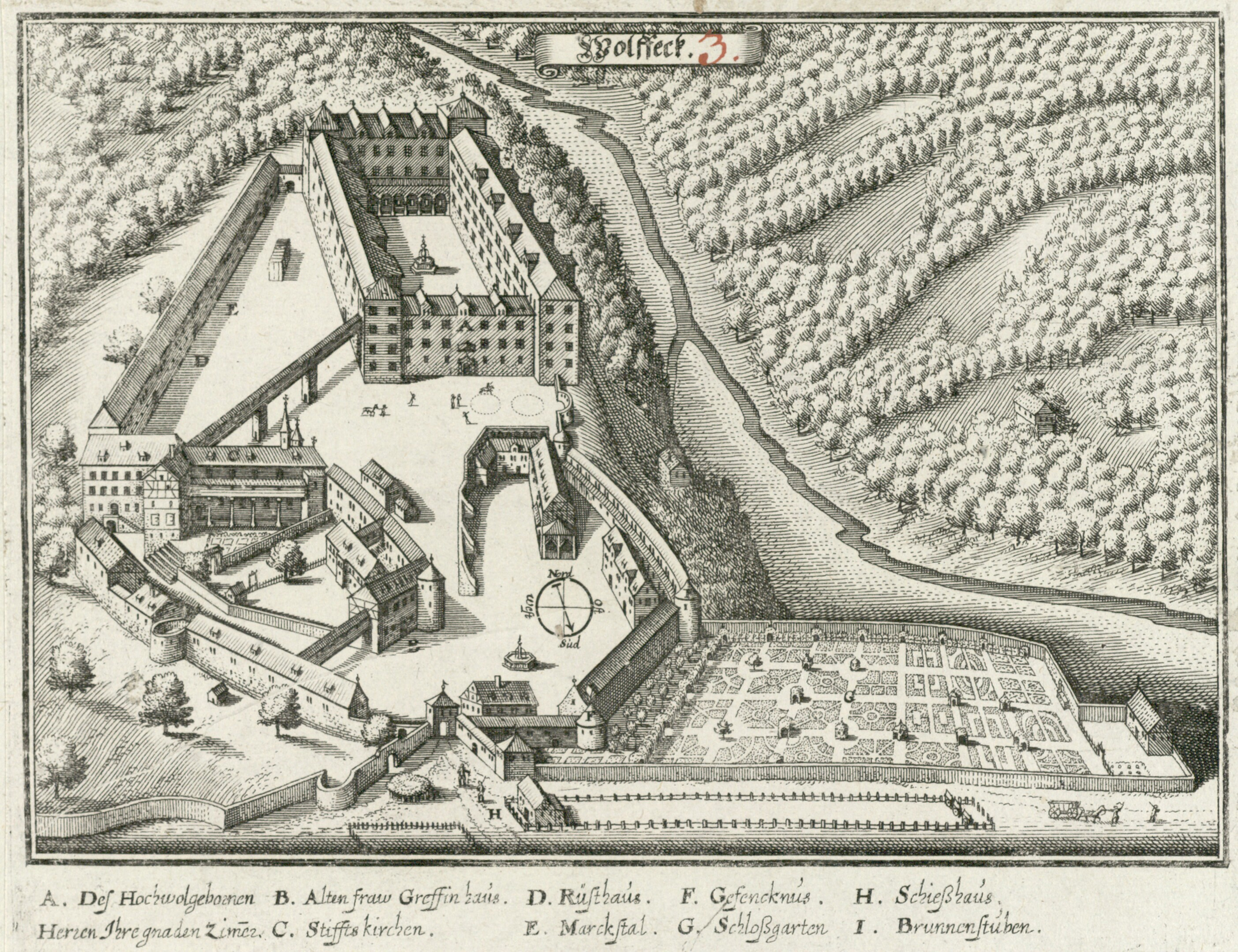 Wolfegg, aus: Topograhpia Sueviae, Frankfurt am Main 1643